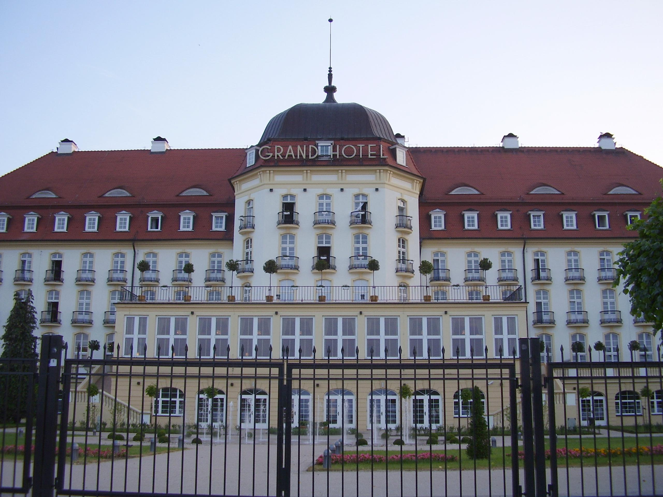 Grand Hotel in Sopot (Poland)